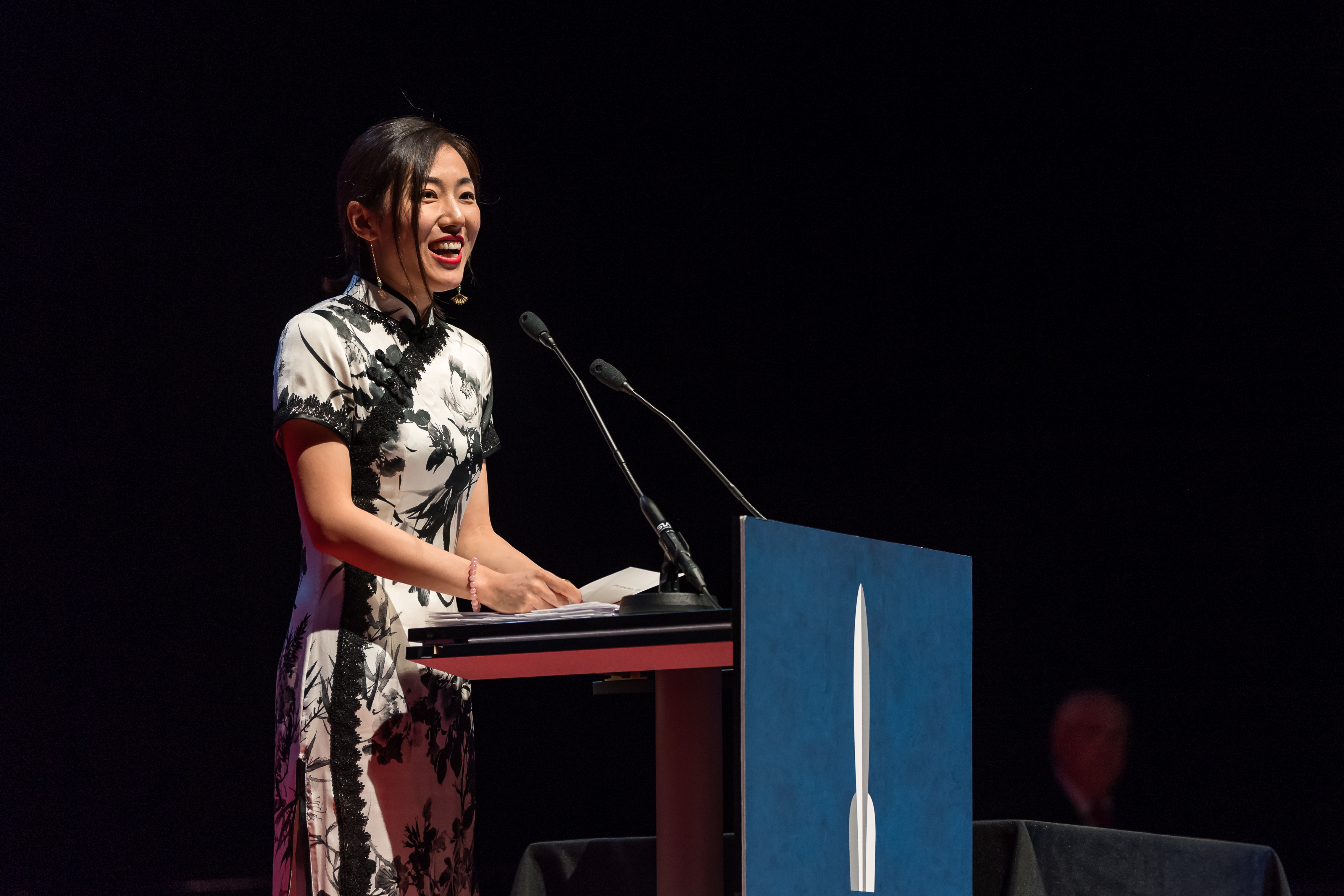 Xia Jia at the Hugo Award Ceremony at Worldcon in Helsinki.jpg